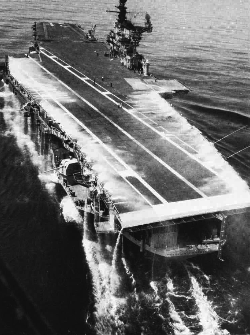 A new, major development in carrier fire prevention occurred on 26 May 1969 when the U.S. Navy aircraft carrier USS Franklin D. Roosevelt (CVA-42) put to sea from the Norfolk Naval Shipyard, Portsmouth, Virginia (USA), after an 11-month overhaul which included installation of a deck edge spray system using a new seawater compatible fire-fighting chemical, Light Water. This development was a direct outcome of the fire aboard the USS Forrestal (CVA-59) in 1967.